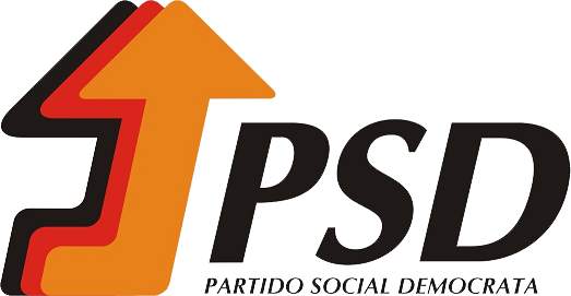 Logo of the Social Democratic Party (PSD), Portugal